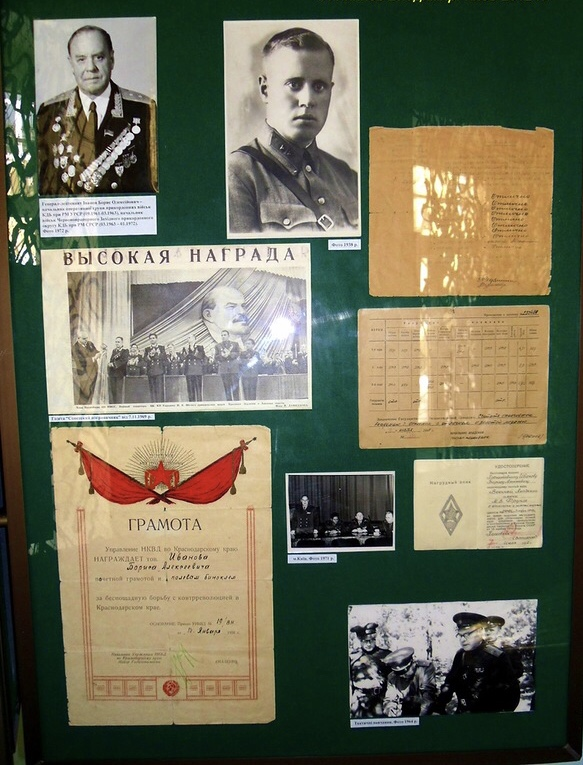 Ivanov B.A. military museum